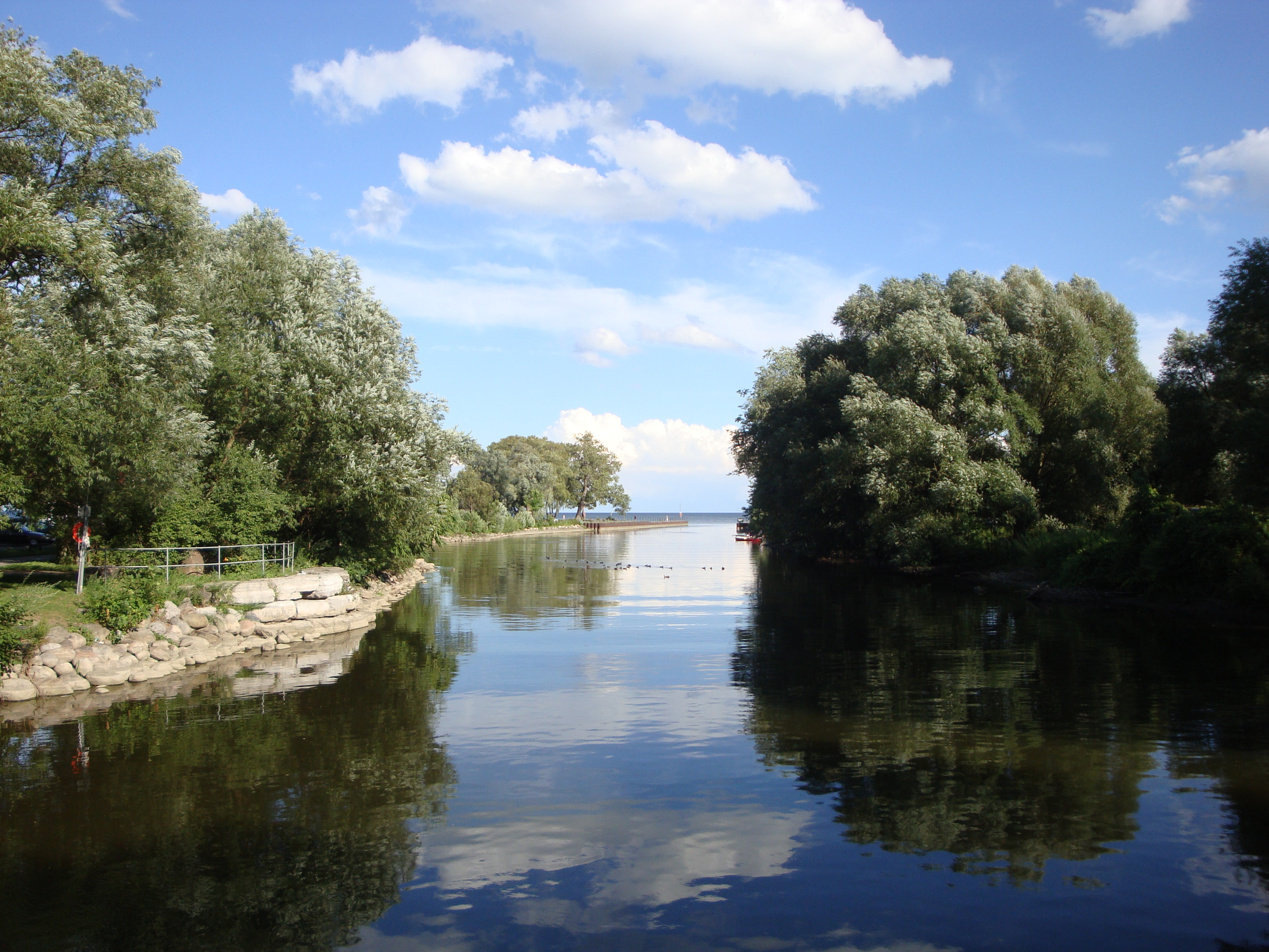 Marie Curtis Park, Long Branch, Toronto (as seen from the bridge on the Waterfront Trail)